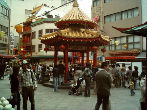 China town in Kobe, photo taken by me in march 2005